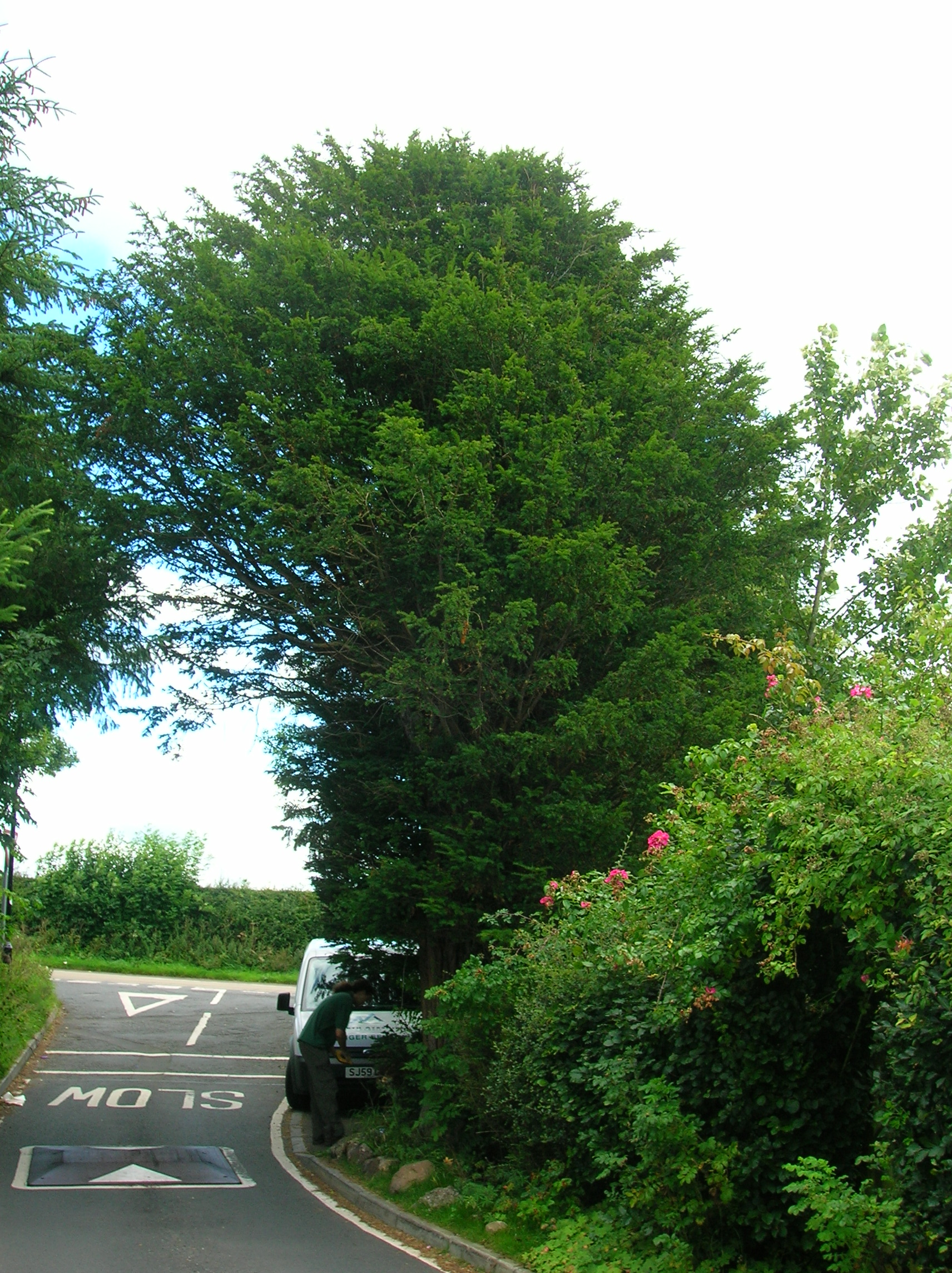 Old Yew tree at Dalgarven Village, North Ayrshire, Scotland. The tree may link to the existence of a pre-reformation chapel in the vicinity.